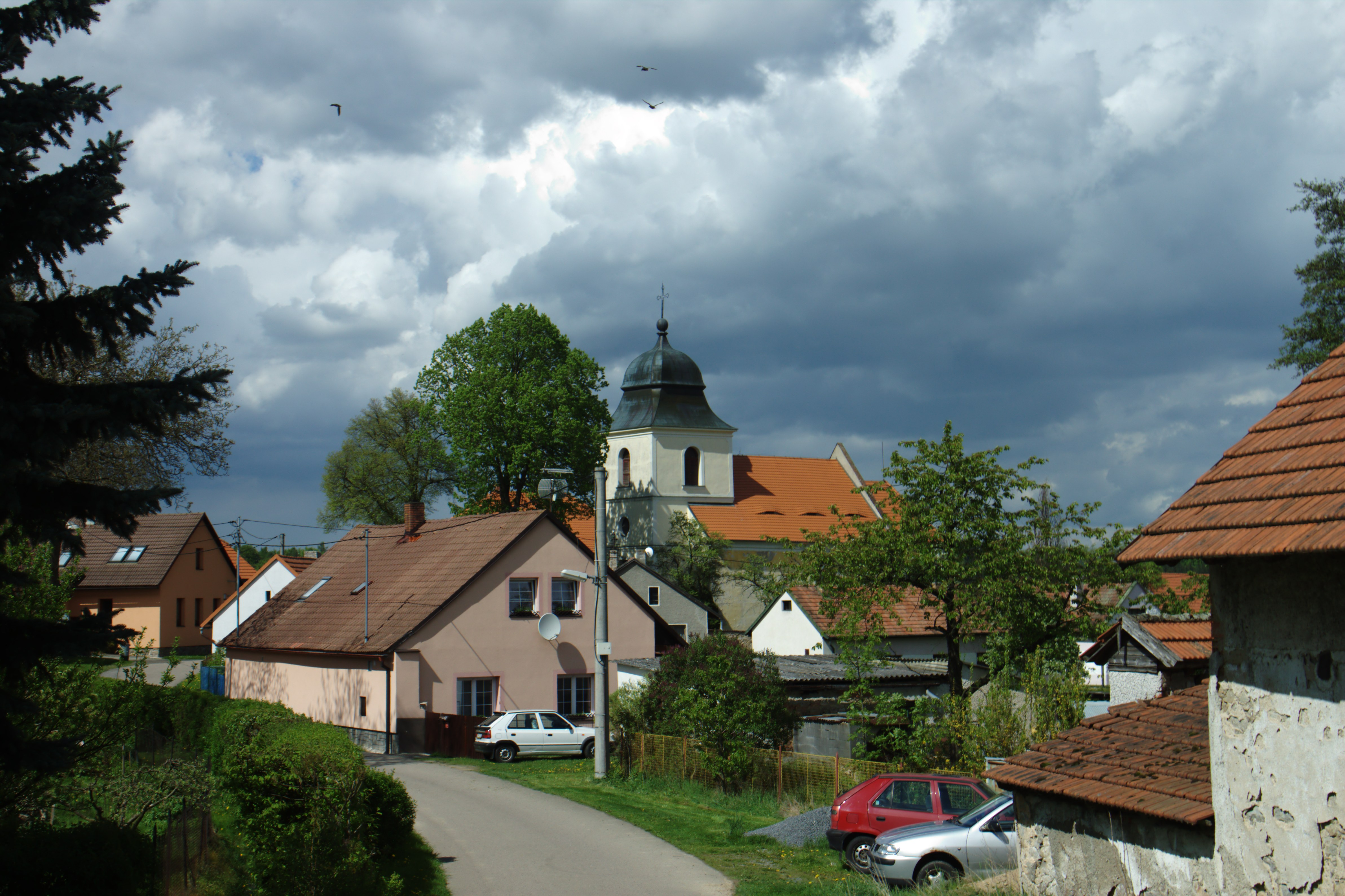 Town of Kozmice seen from south, Central Bohemian Region, CZ